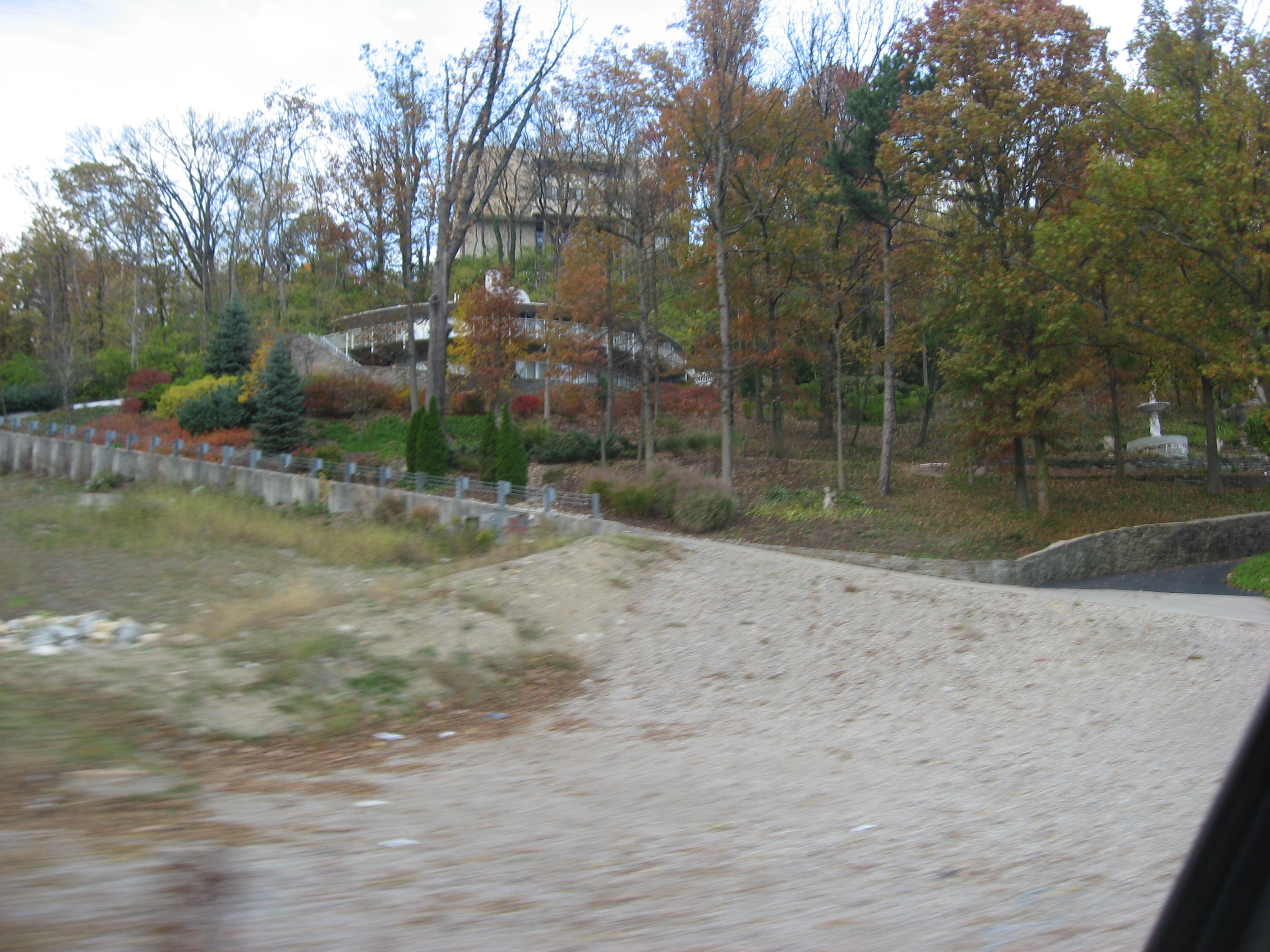 Driveway to the Ben Pitman House, located at 1852 Columbia Parkway (U.S. Route 50) in Cincinnati, Ohio, United States. Built in 1885, it is listed on the National Register of Historic Places.